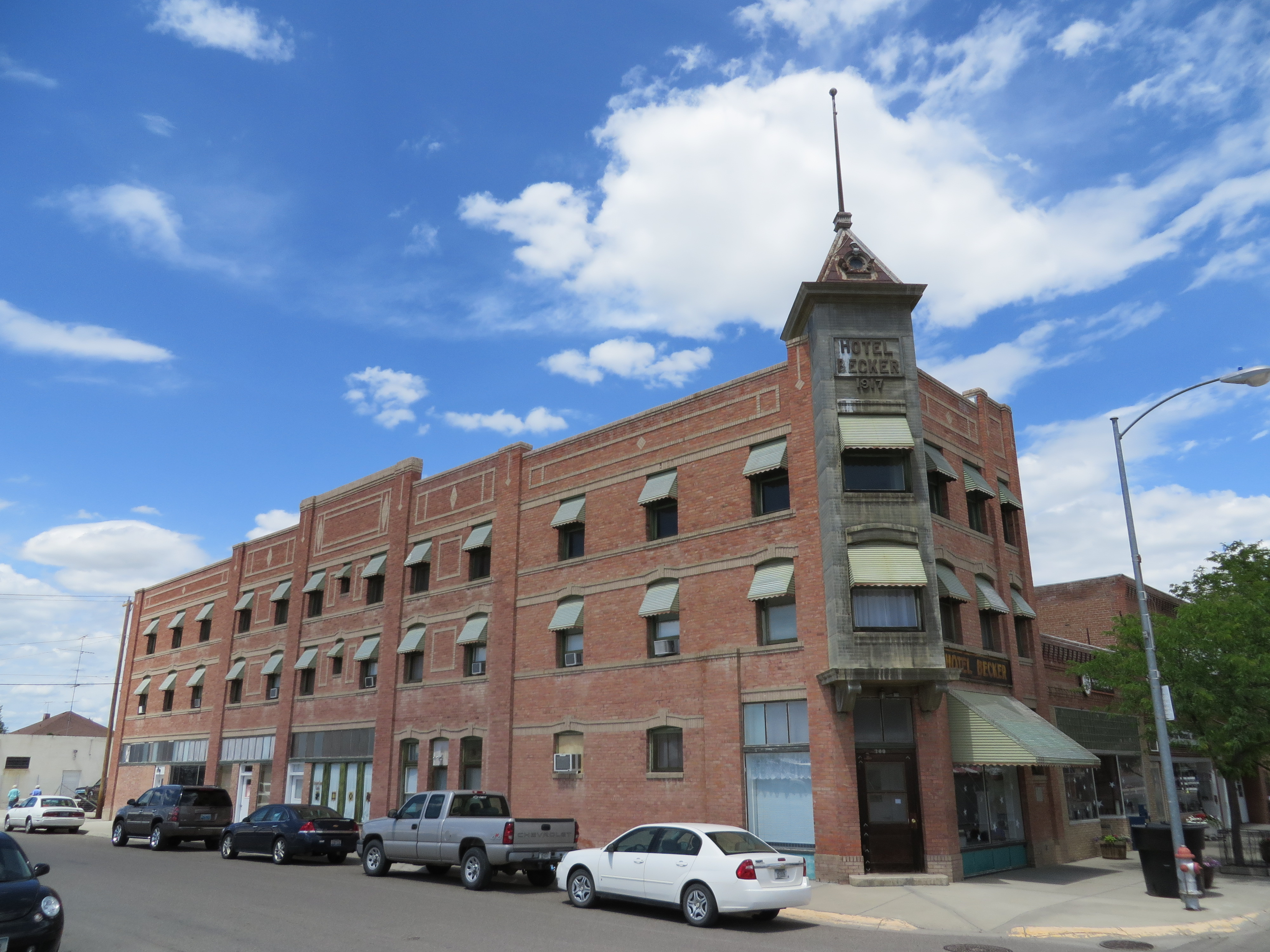 Hotel Becker, 200 North Center Avenue, Hardin, Montana.